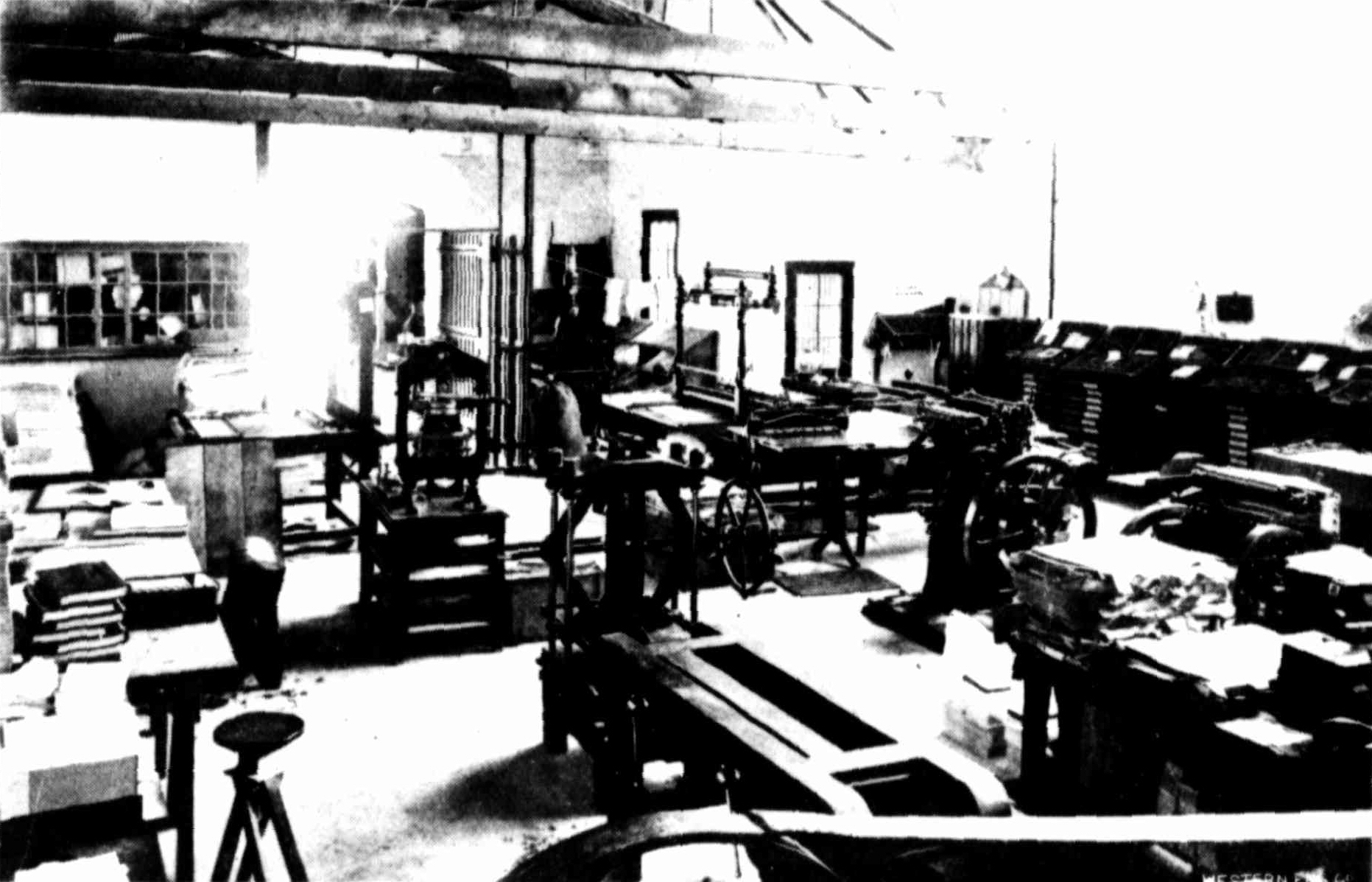 Fremantle Prison: The prison printery in 1909